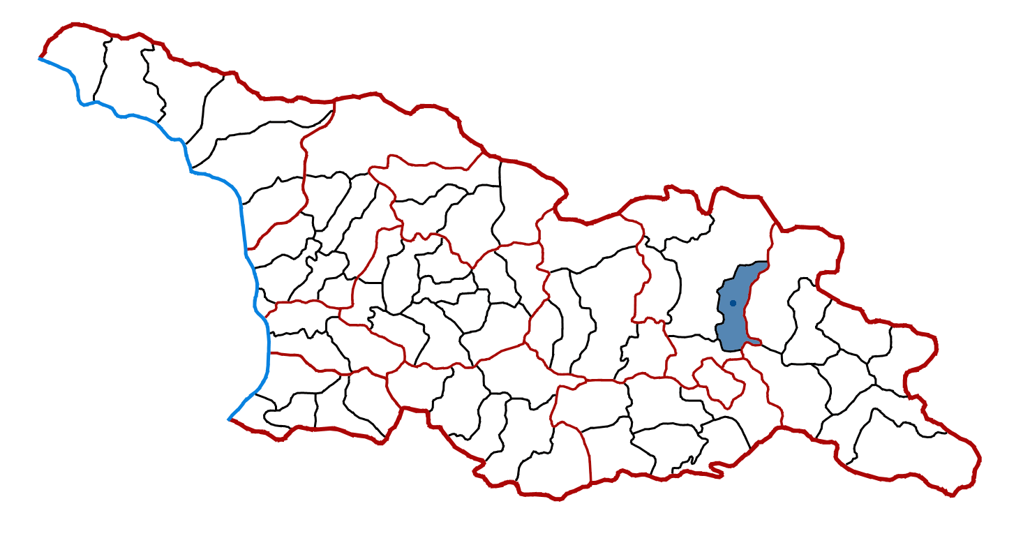 Location of Tianeti district in Georgia